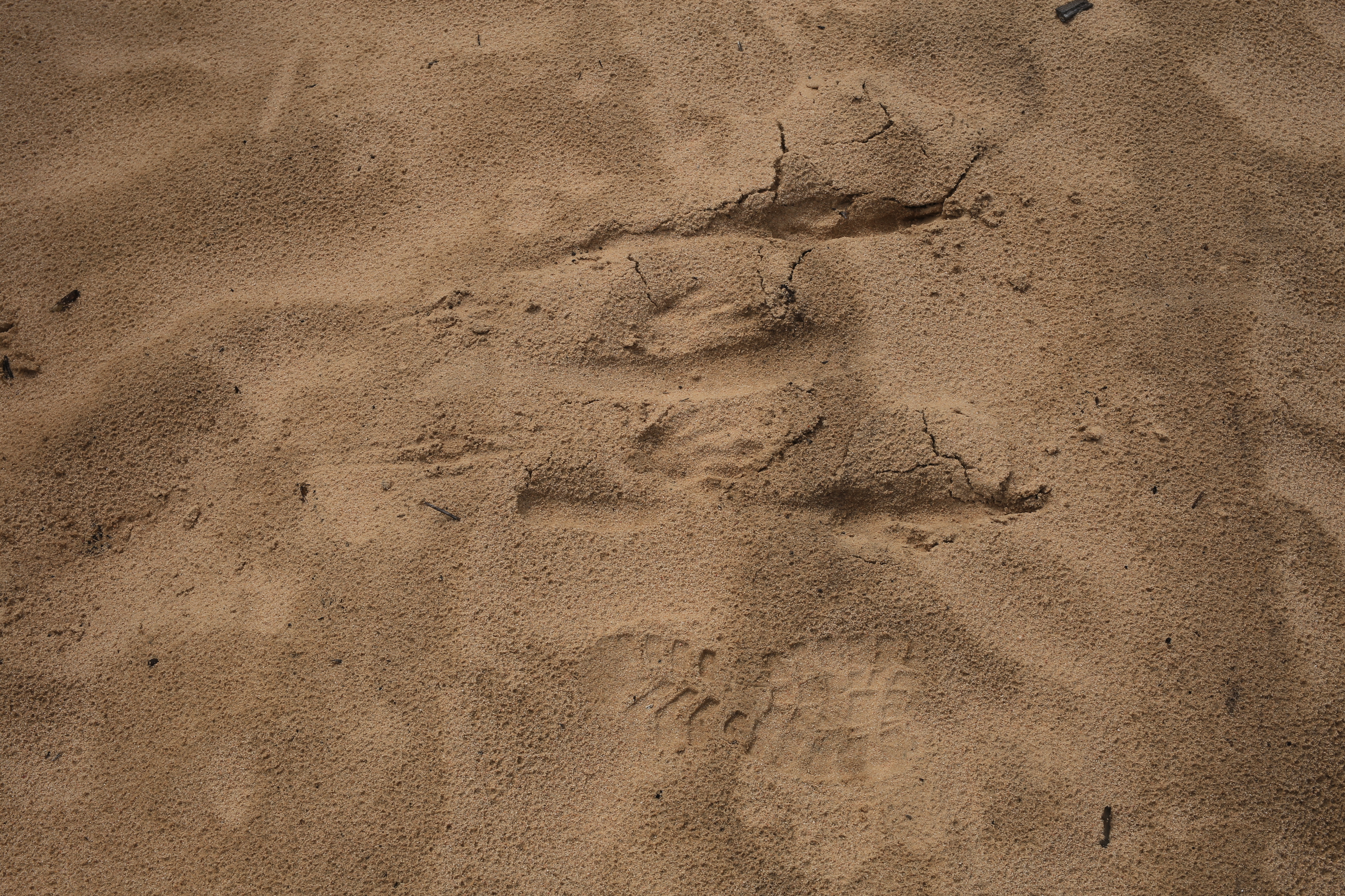 Macropus fuliginosus Desmarest, 1817, tracks, Wyperfeld National Park, VIC, 24 January 2017 Boot for which print is visible approximately 30 cm in length